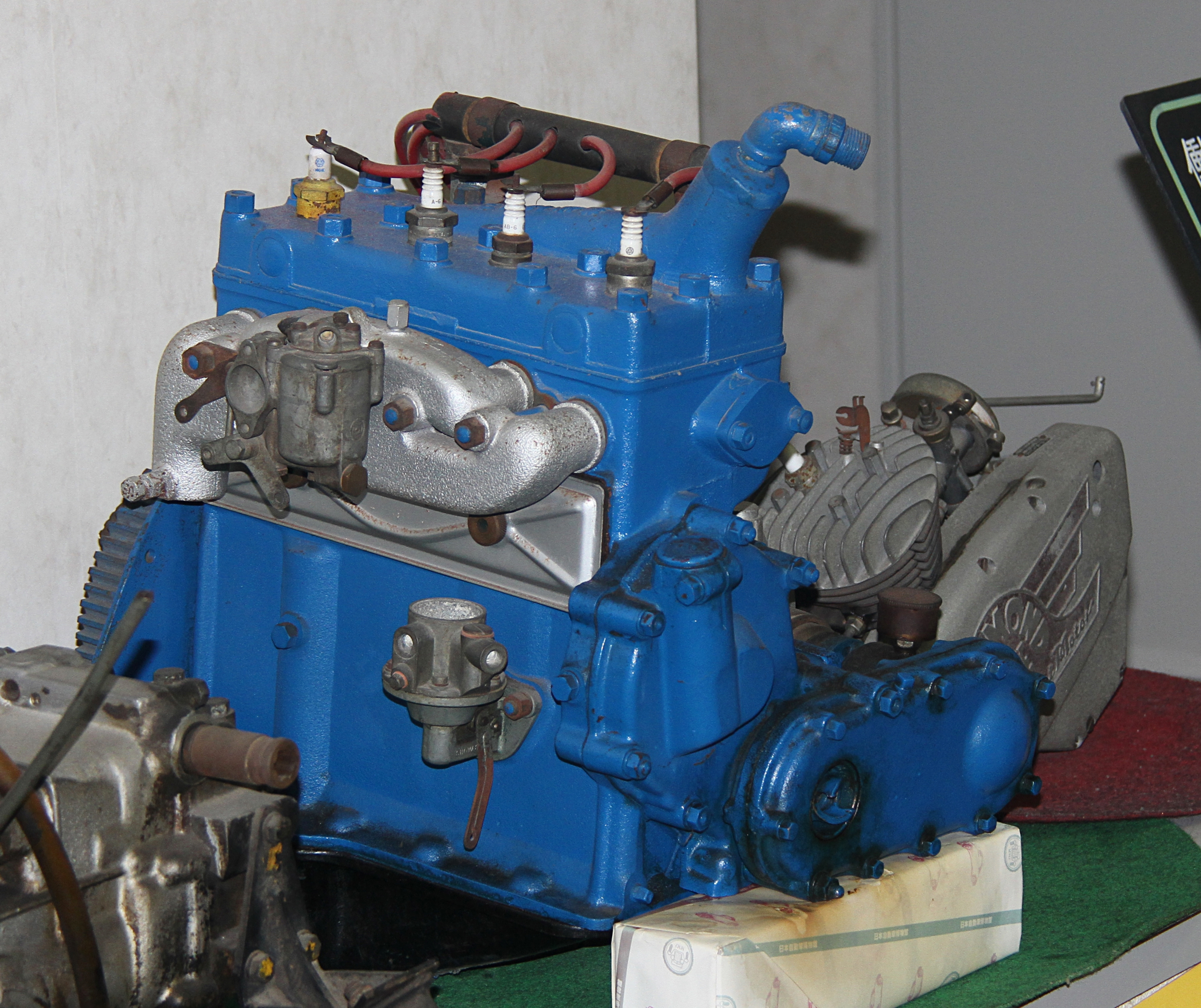 Datsun 722cc 4-cylinder engine